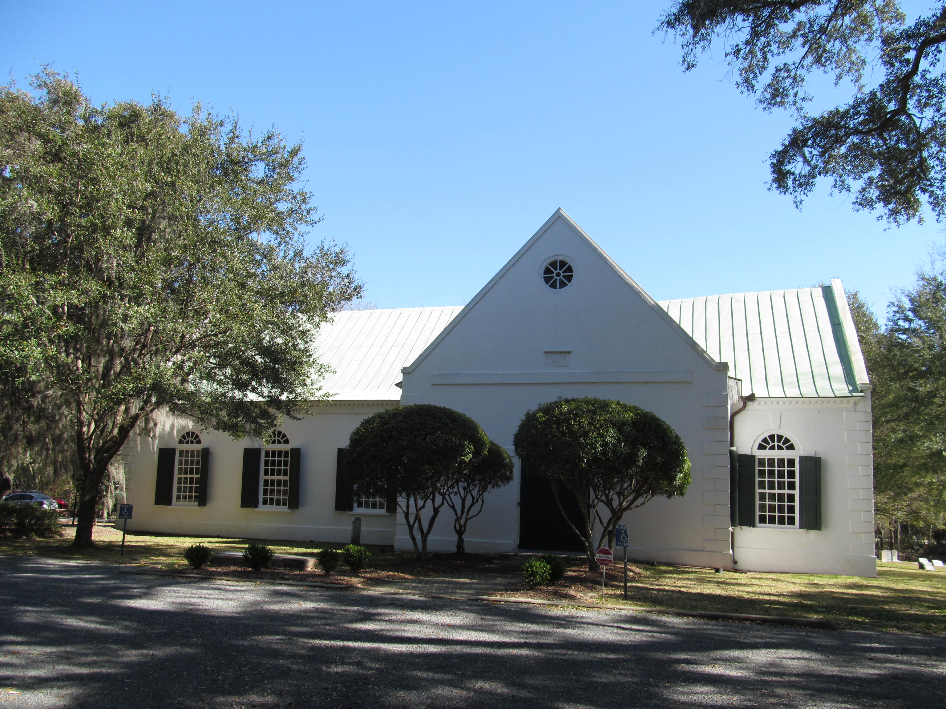 St Andrews Parish Church in Charleston, SC